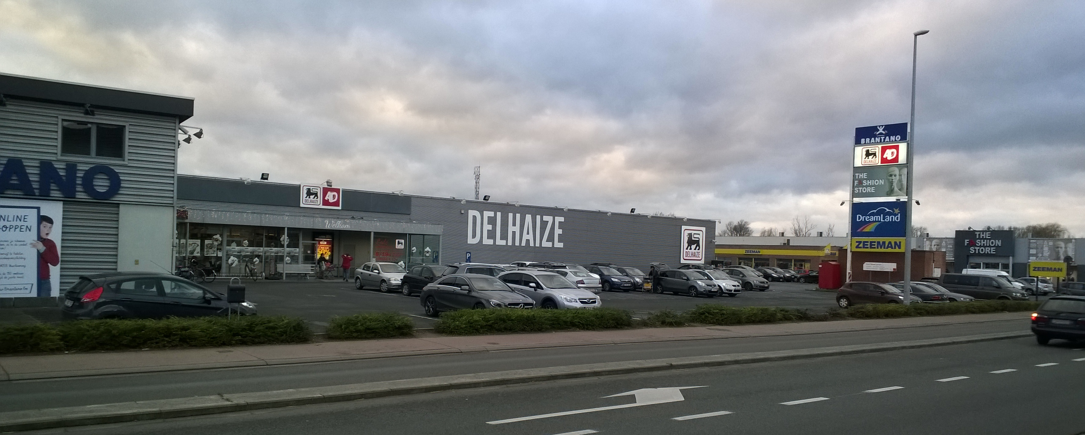 Shopping center Heiplas in Lede, Belgium